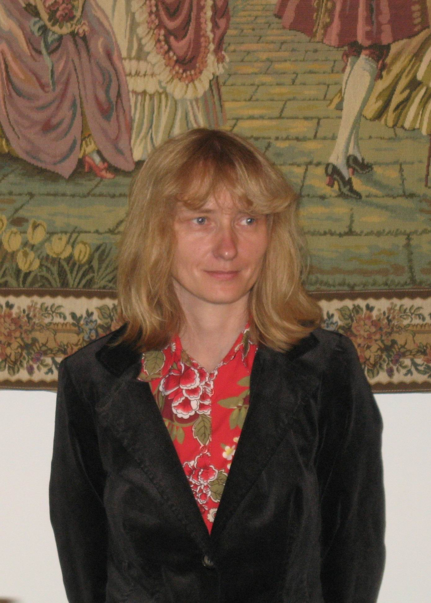 Jolanta Stefko, Polish poet and writer, at the Kościelski Prize Ceremony in Kraków, 7th October 2006